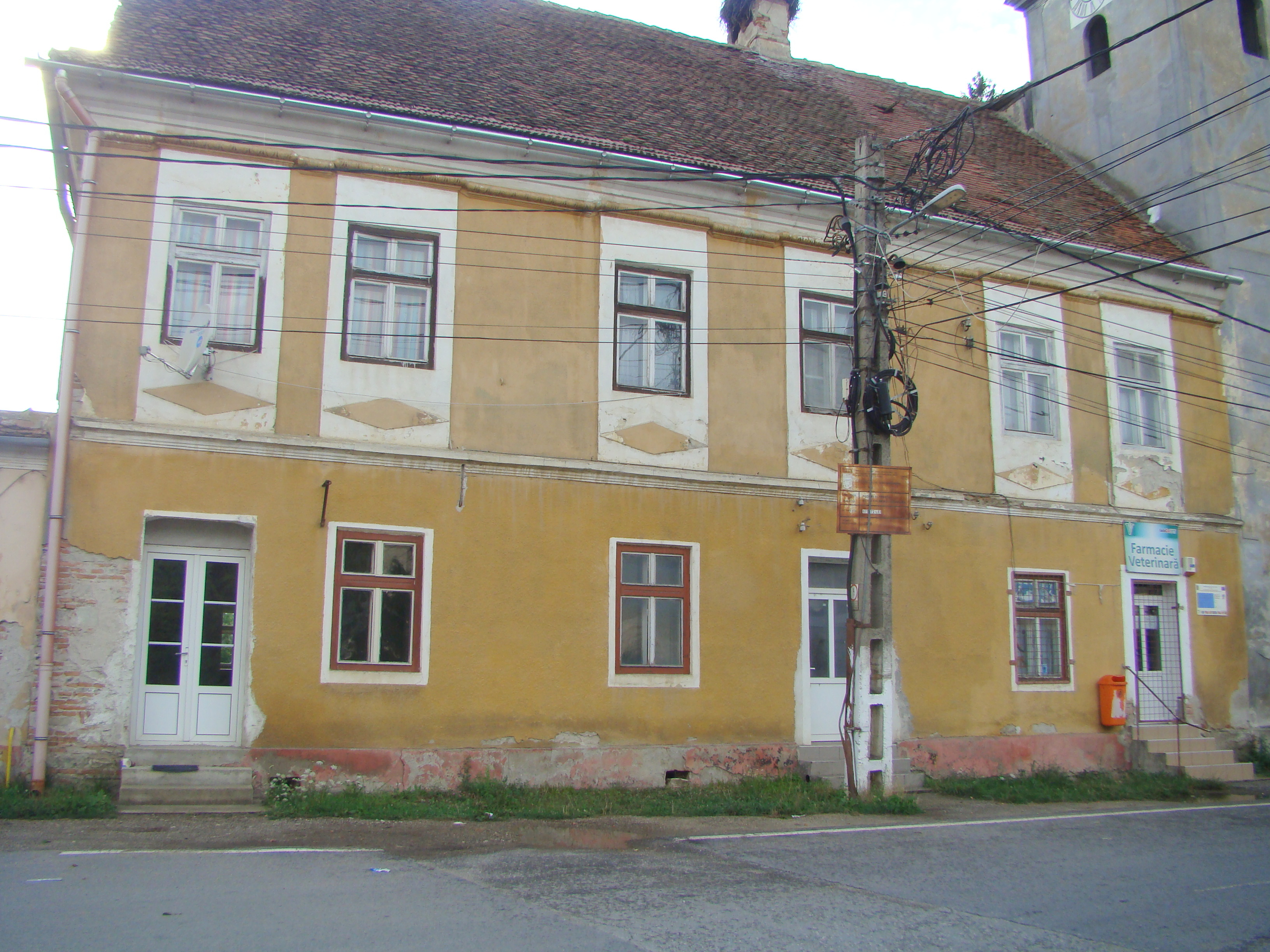 Lutheran parish house in Șercaia, Brașov County, Romania